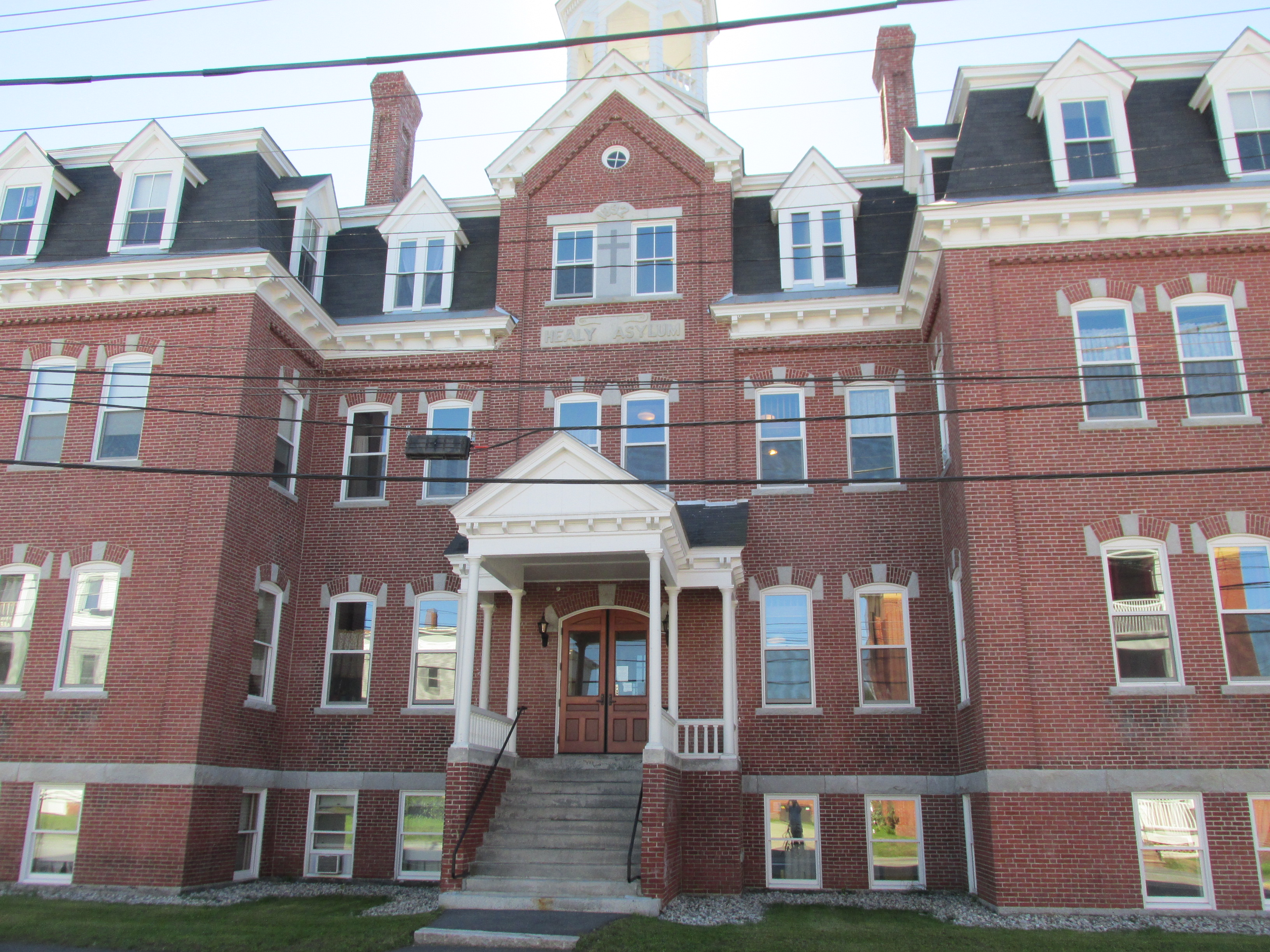 Healey Asylum, Lewiston Maine